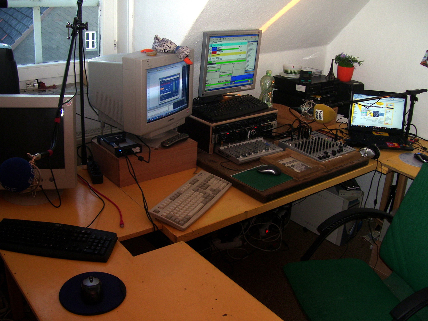 A one-man studio of an internet radio station